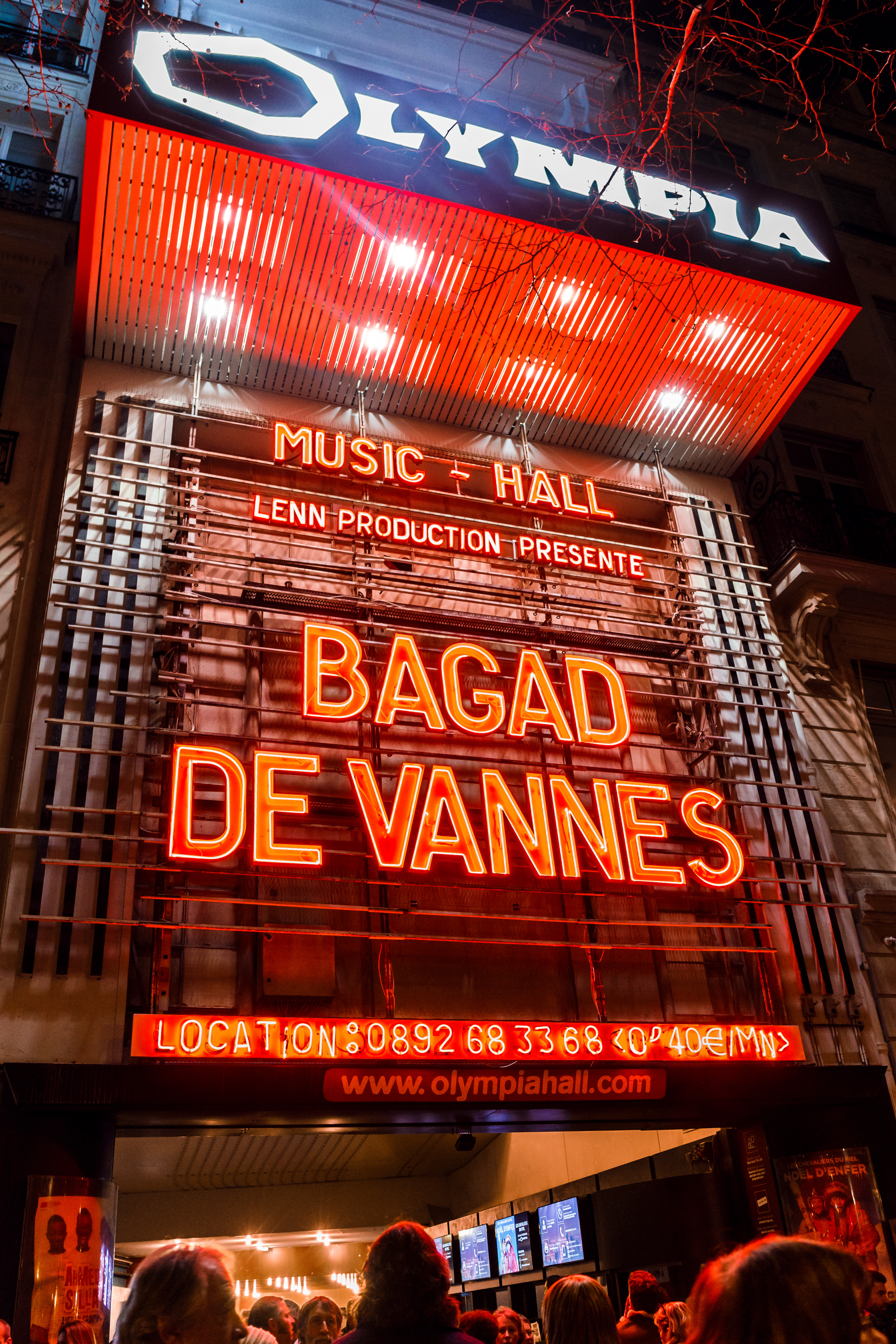 Front of Olympia (Paris, France) announcing Bagad de Vannes (Breton band) concert, February 2017.